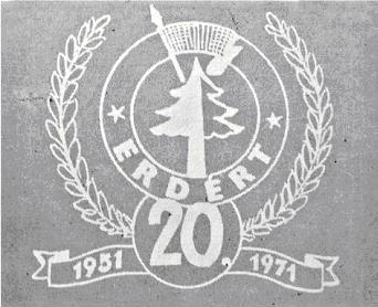 ERDÉRT Co. a Hungarian Commerce share company. Commercing and producing with Timber materials. Former organising forest related business. Established in 1951. This is a 20-year jubilee medal